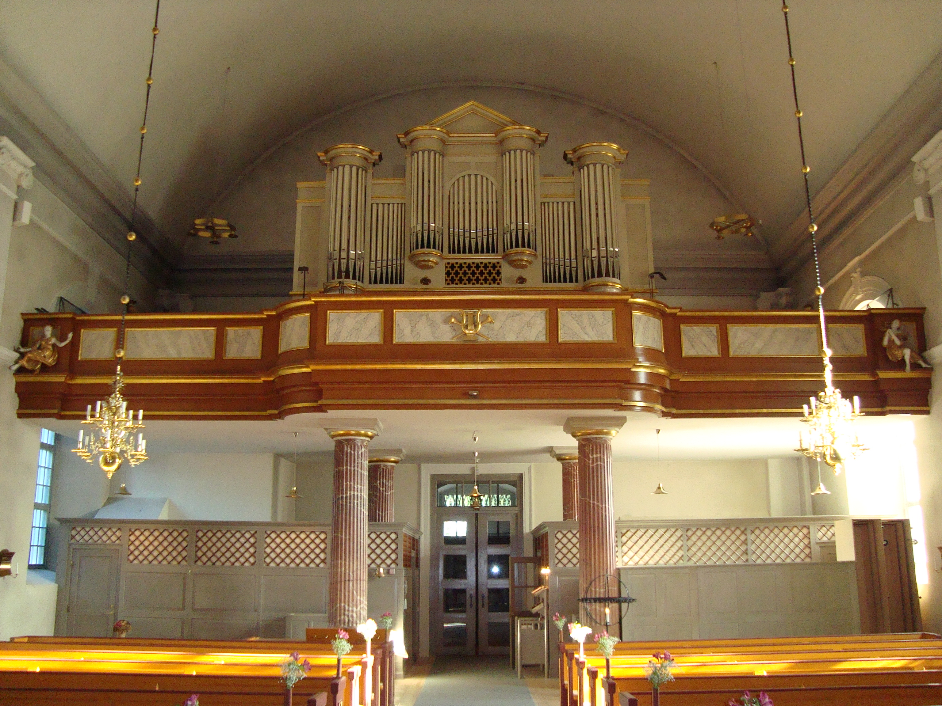 Church of Västanfors, Fagersta, Sweden